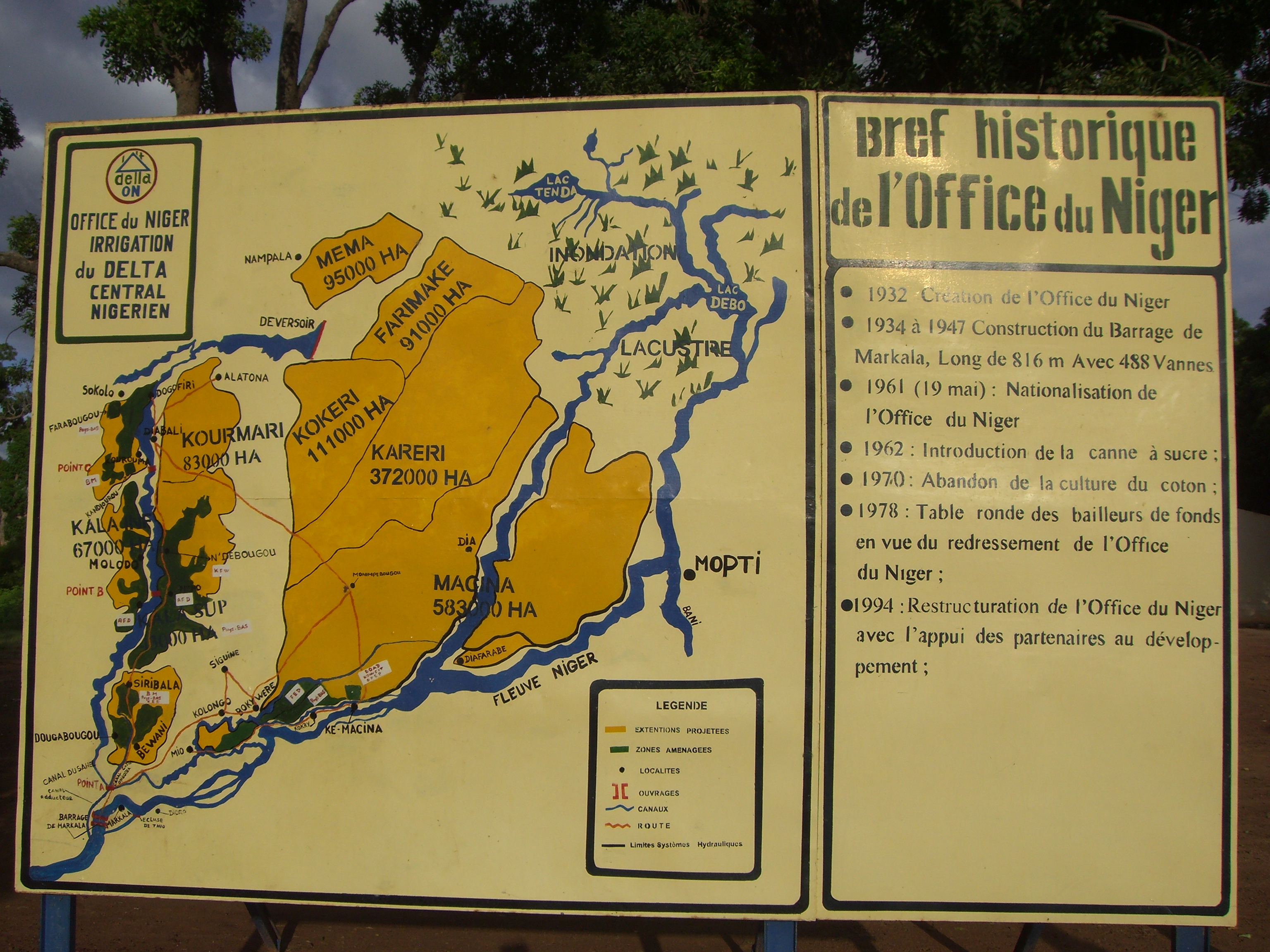 Information board about Office du Niger next to the dam of Markala